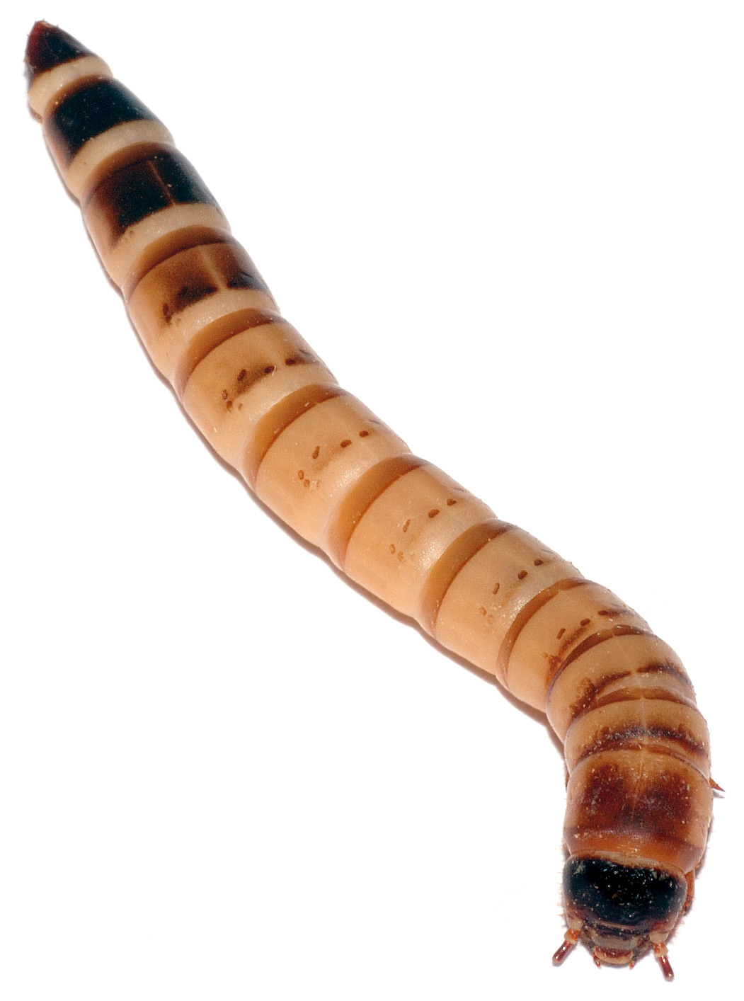 This image shows a 6 cm long Zophobas morio larva from top.